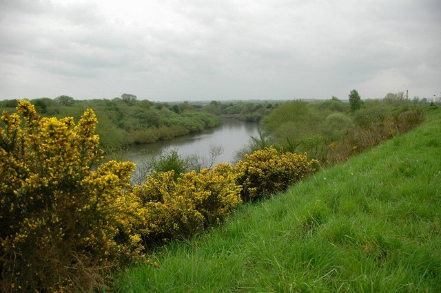 Woolston Eyes Woolston Eyes nature reserve is only partially open to the public. Access to some areas is by permit only.